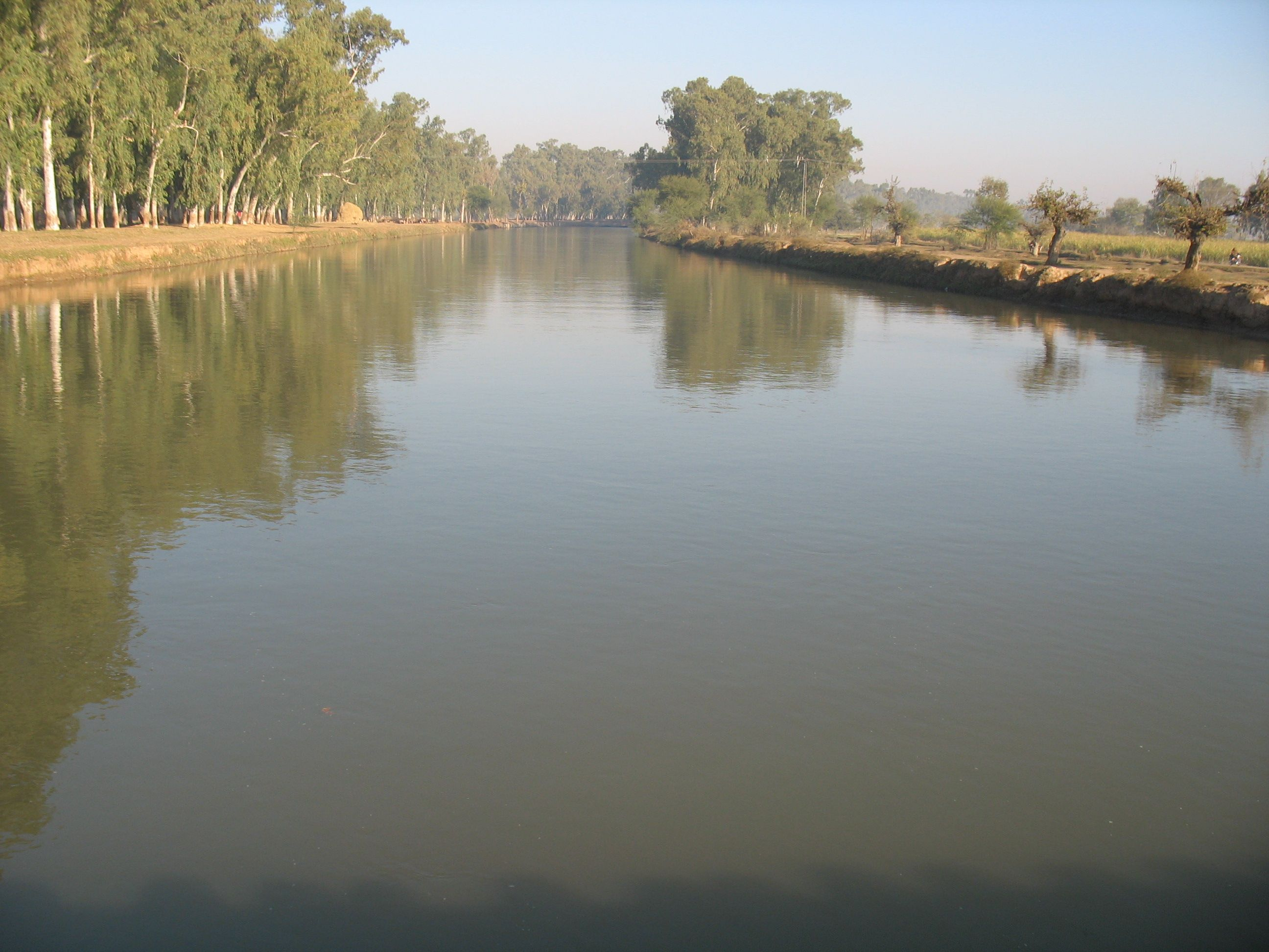 Canal - Chak No. 1 Chillianwala Station, Mandi Bahauddin District, Punjab, Pakistan